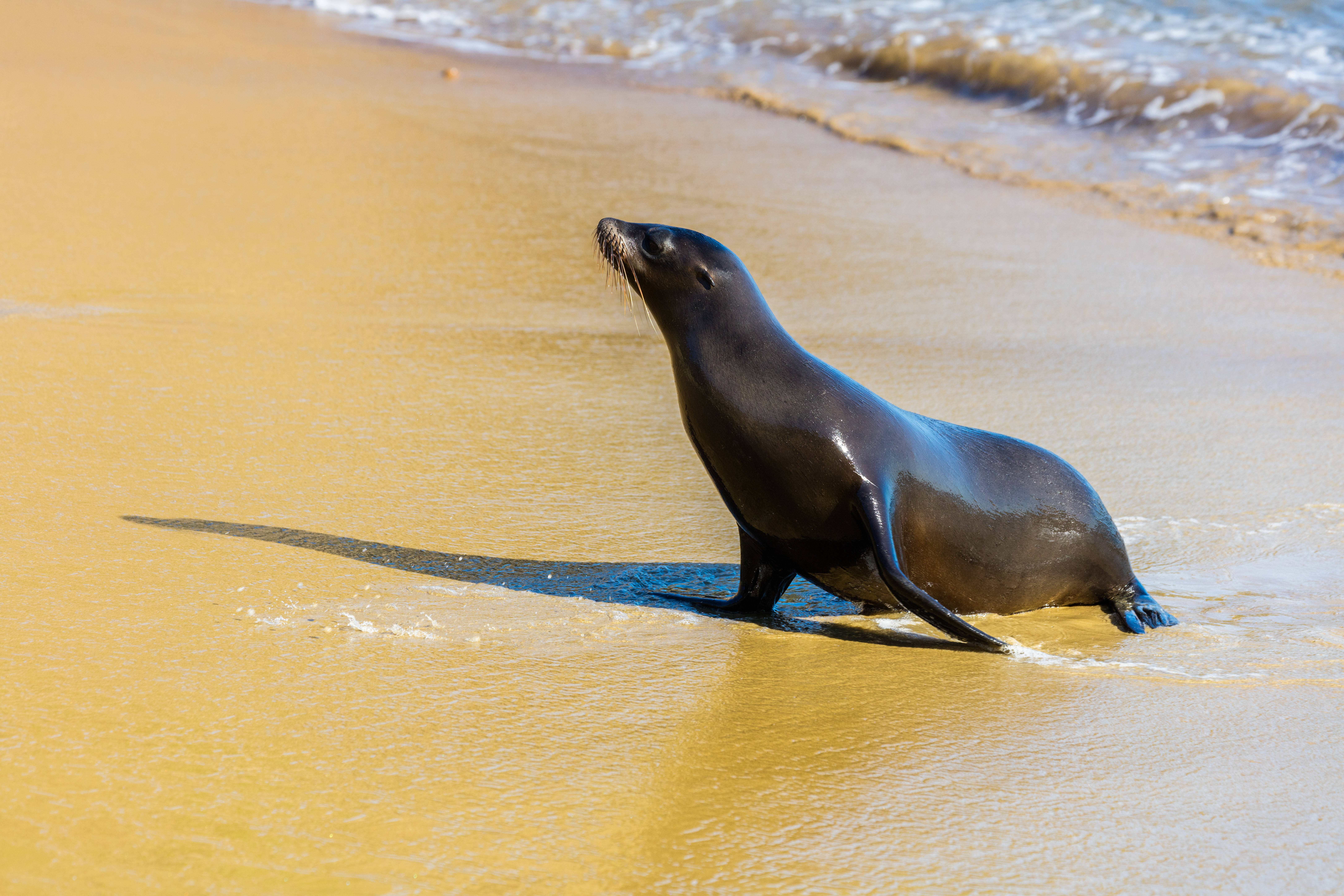 Sea lion (Zalophus californianus wollebaeki), Punta Pitt, San Cristobal island, Galapagos islands, Ecuador